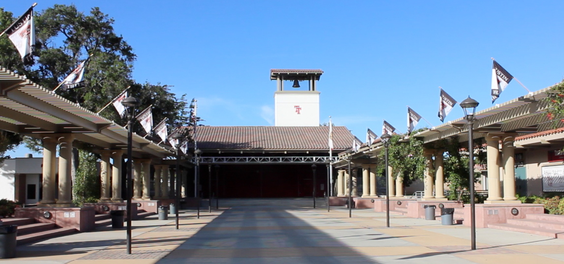 This image shows the Tustin High Student Quad.